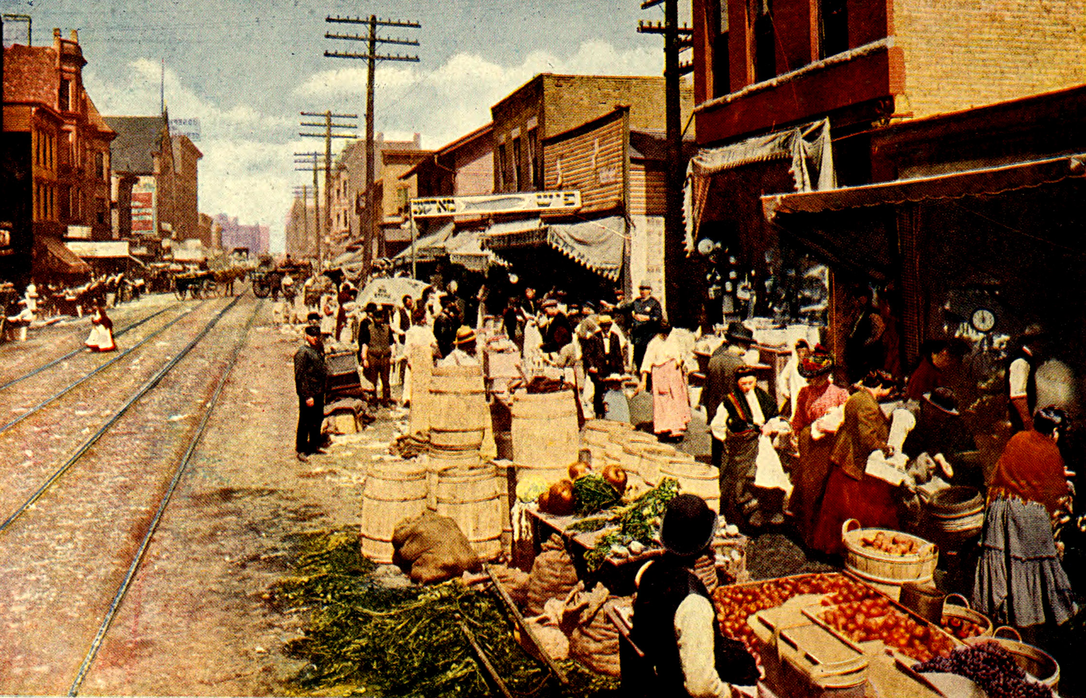 The Jewish Ghetto of Chicago V. O. Hammon Publishing Company